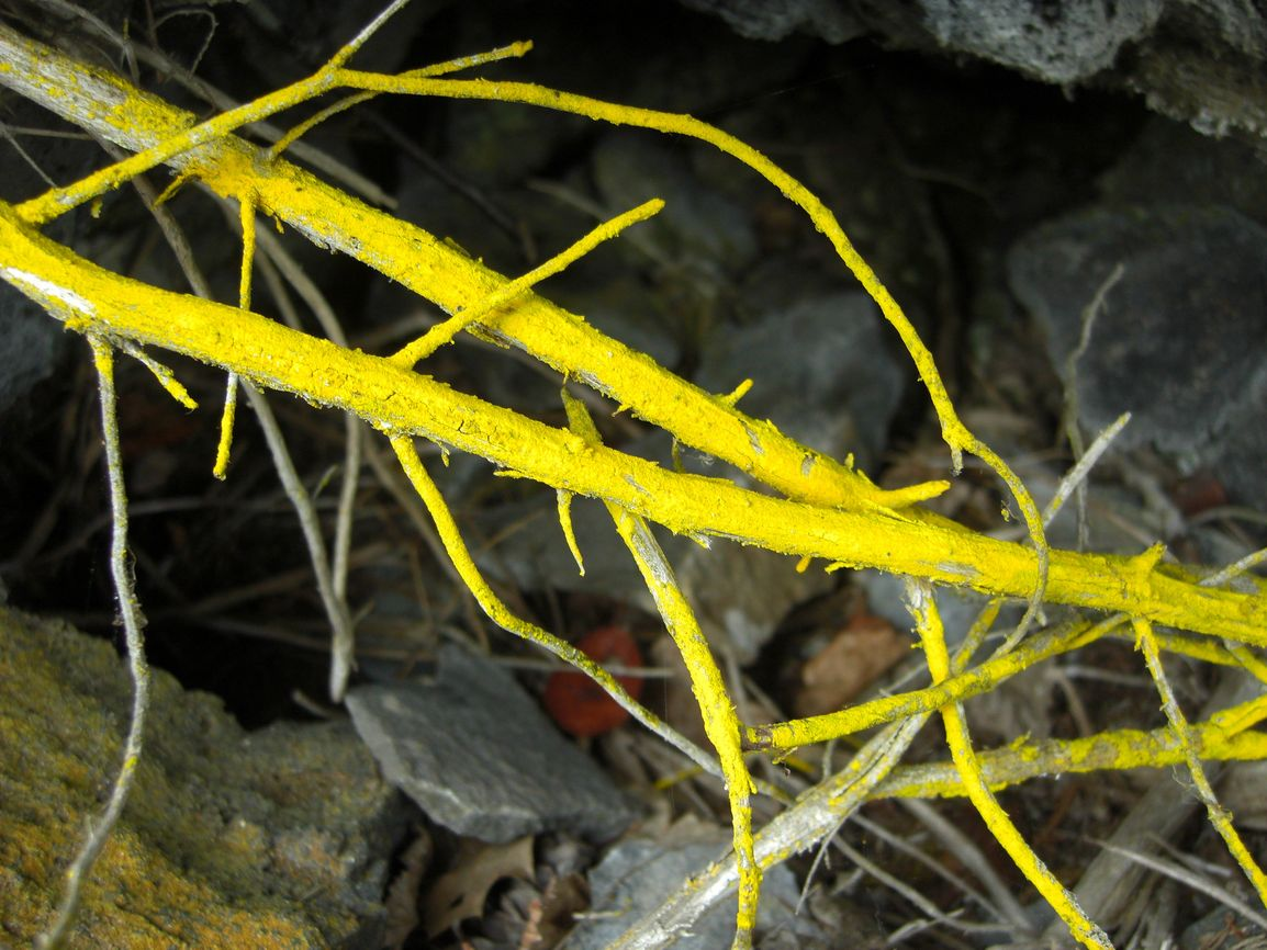 Chrysothrix candelaris (L.) J. R. Laundon 20090616.21 Wells Gray Park, BC